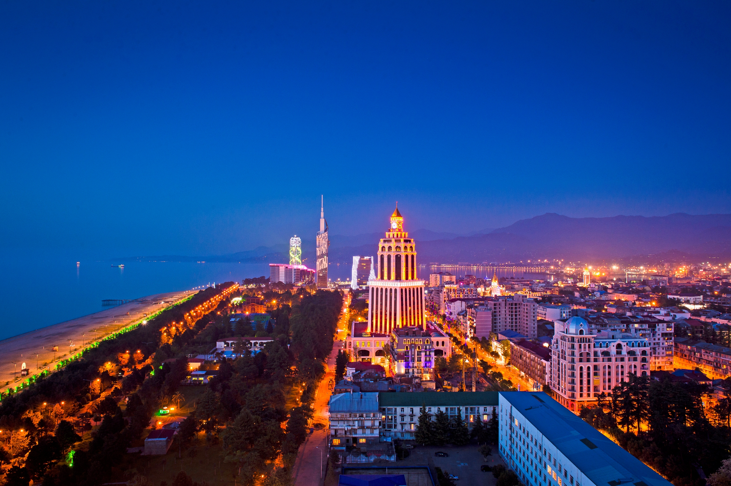 The photo was taken in 2013 year.